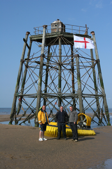 Lifeboat day